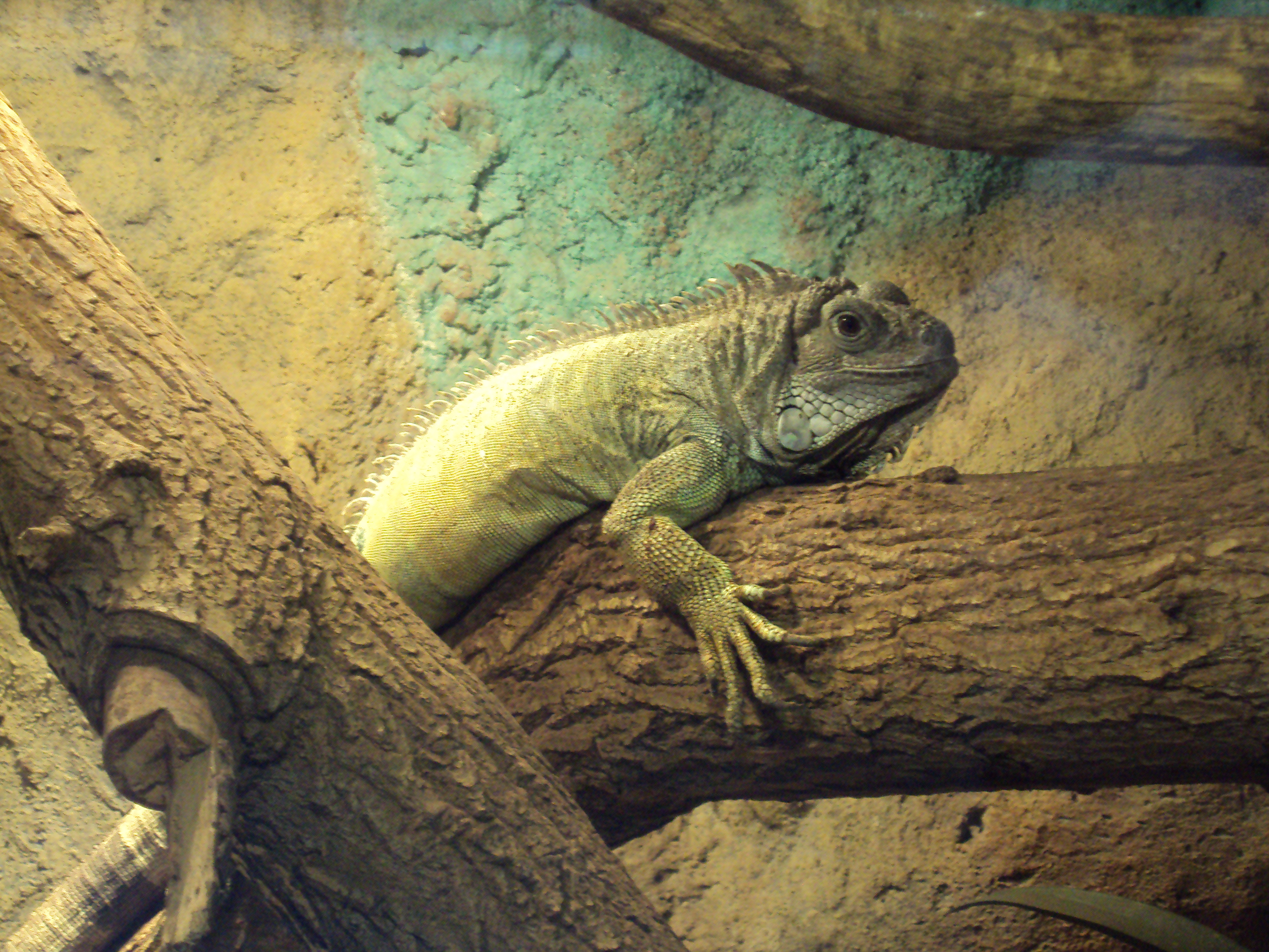 Sofia Zoo - Reptile